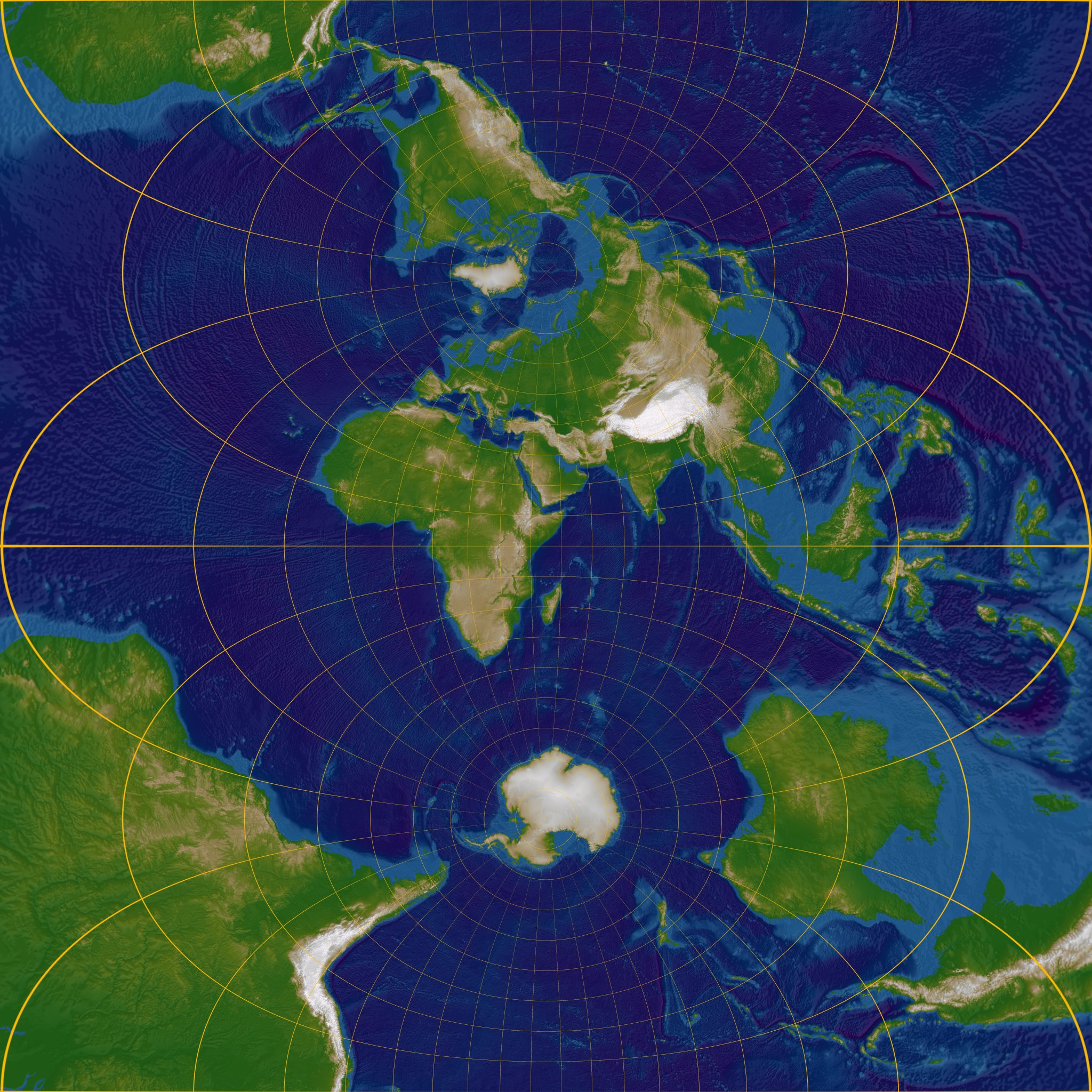 Transversal Mercator projection. Map center is at 45°E, 0°N. Left map border is near 30°W, right border is near 130°E.